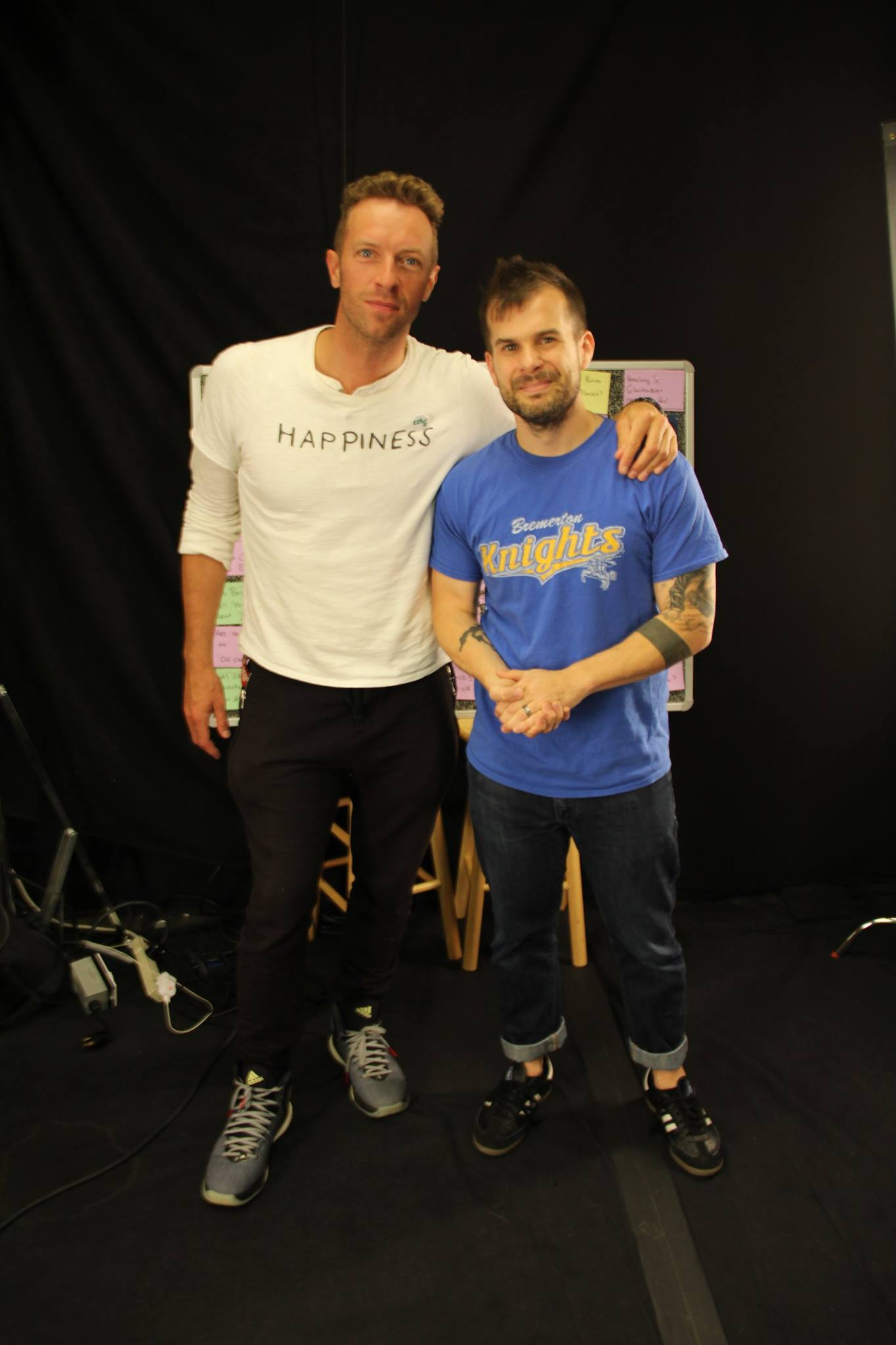 With Chris Martin from Coldplay